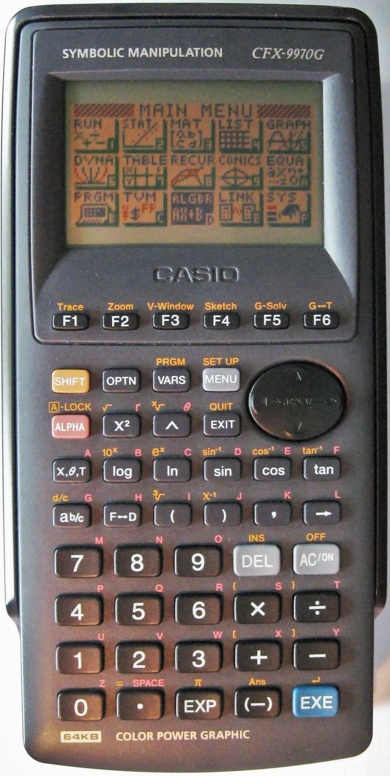 Casio CFX-9970G